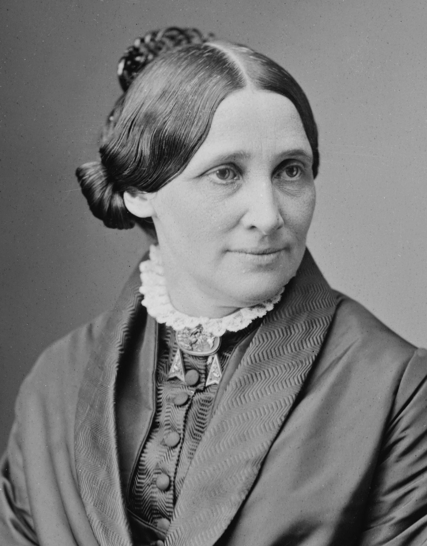 Lucy Webb Hayes. Library of Congress description: "Hayes, Mrs. RB"